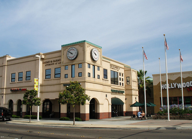 Main street in El Cajon, California.